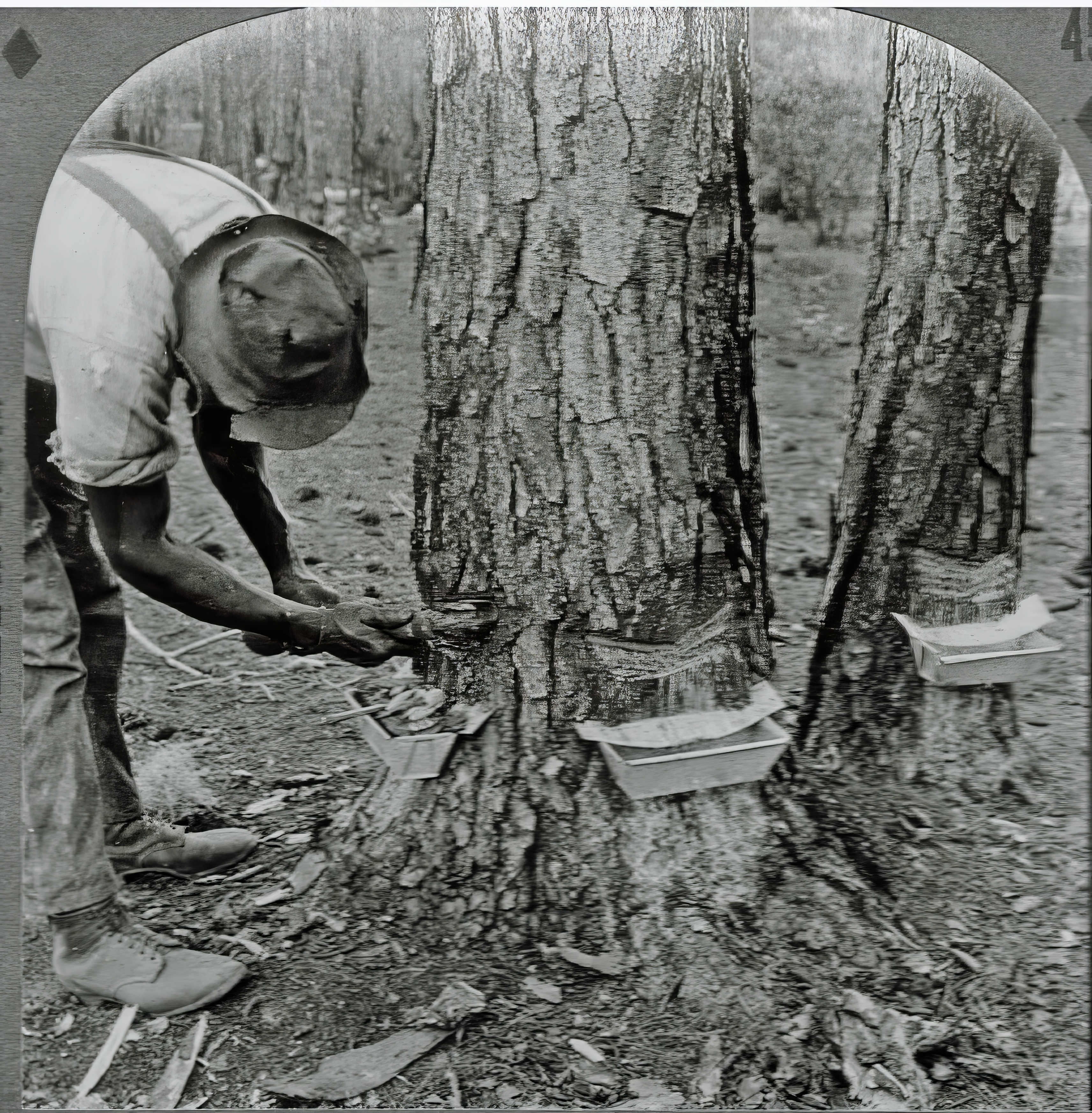 This is from an old stereoscopic photo "Chipping a turpentine tree, Georgia" that shows how a pine tree was "chipped" to get sap to make turpentine and rosin. From my scan of a stereoscopic photo. No date given, but it was 1906-20; copyright has expired. This process was used go gather pine sap for turpentine until approximately the 1970s. Purpose: It is to show how chipping a pine tree to get sap for turpentine was done. It also shows the labor of a black man in Georgia decades ago. This is the left side of a stereoscopic photo that is mounted on cardboard that has curled. The photo is actually much sharper than this scan because the curvature keeps the scanner from focusing on it. I can get it better if I can get it to flatten out.